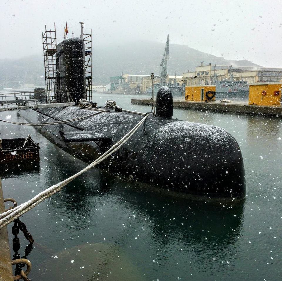 Submarine Galerna (S-71) of the Spanish Navy in Cartagena Naval Base.